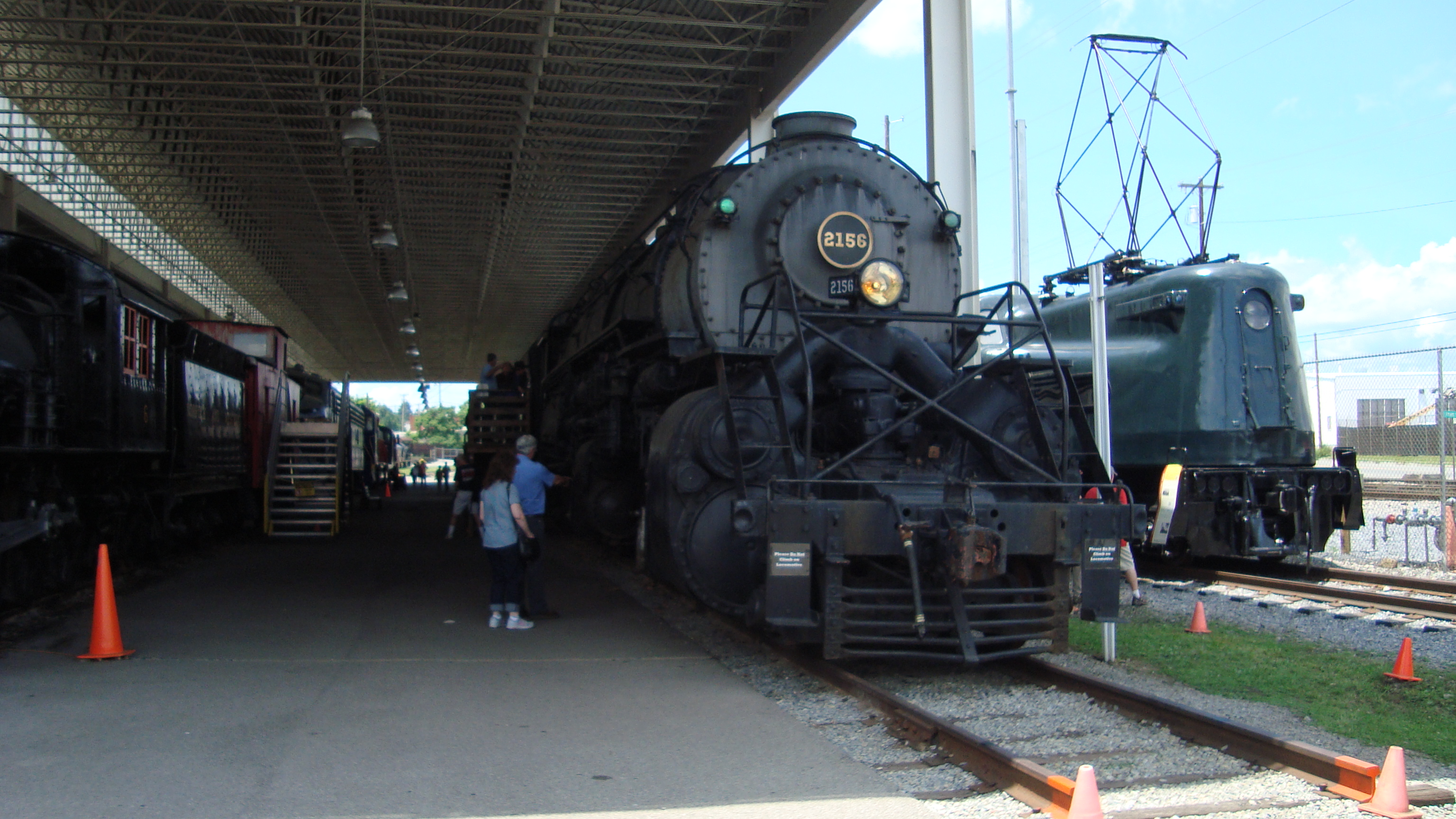 On loan from the Museum of Transportation in Kirkwood, MO.